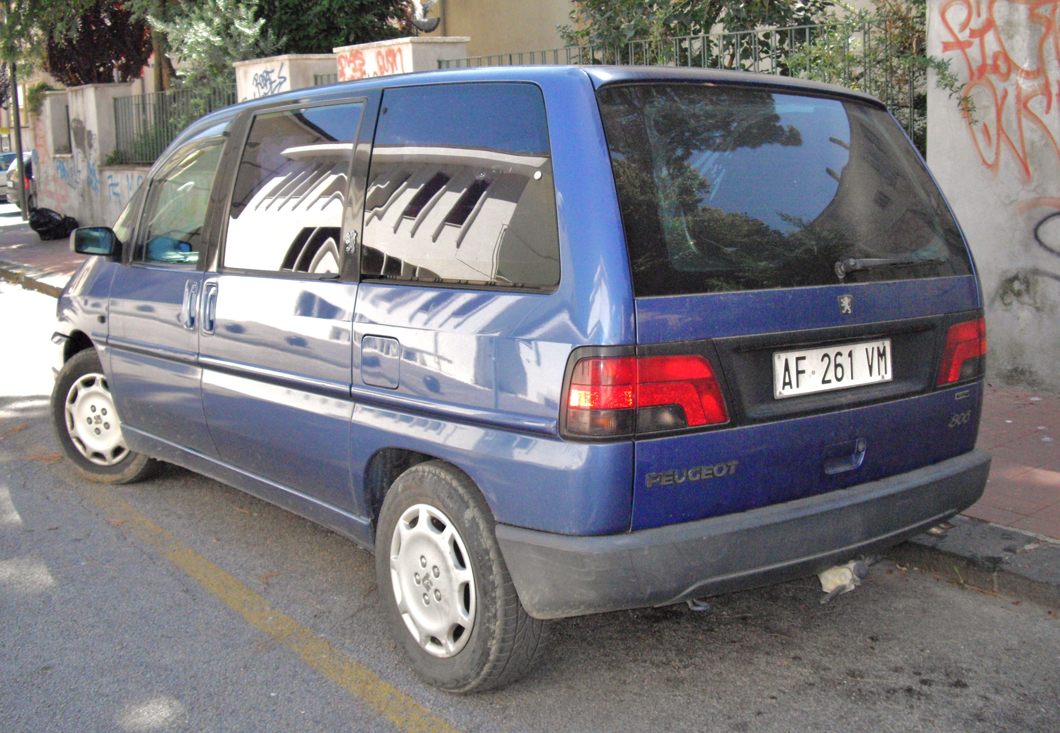 1995 Peugeot 806